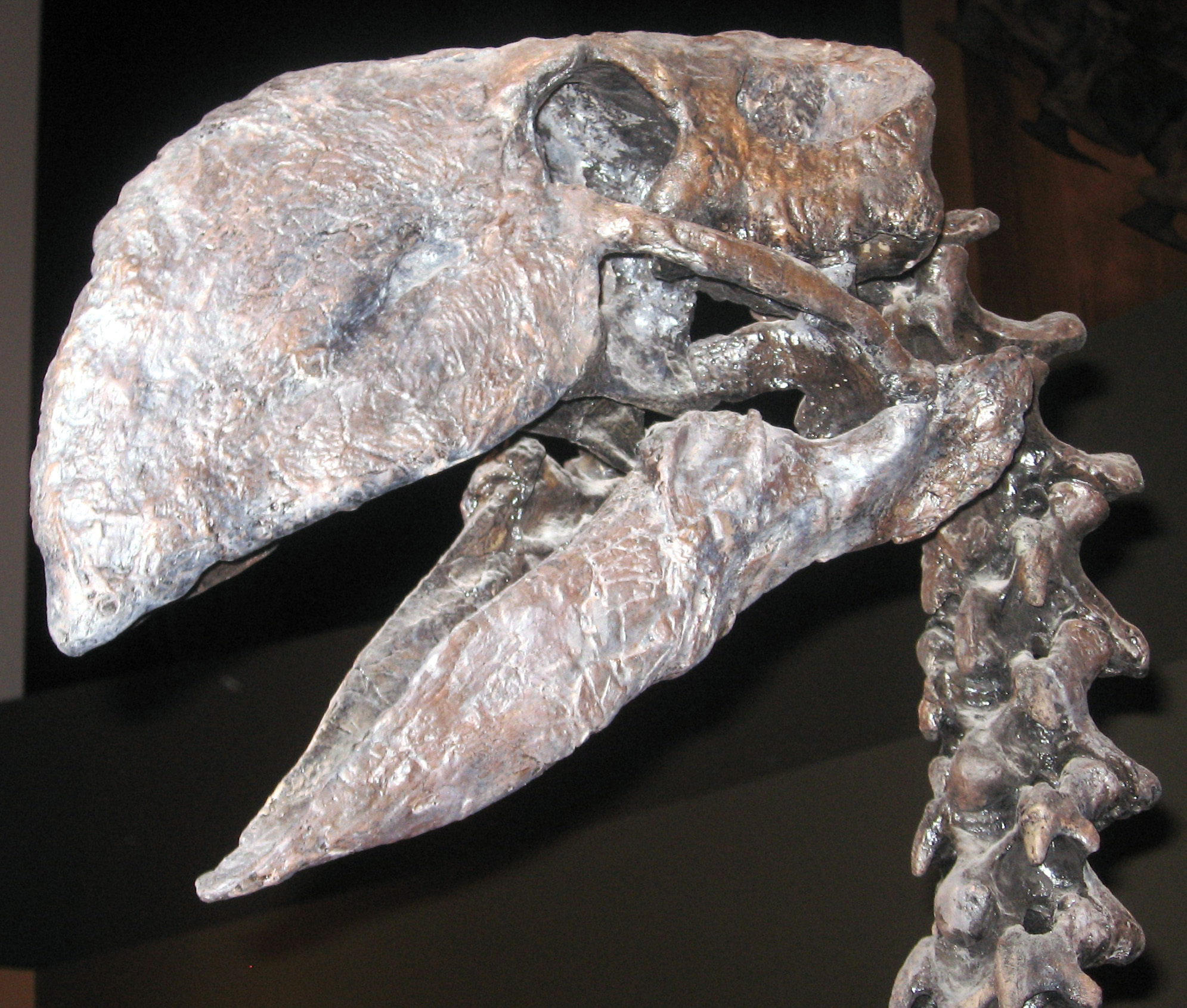 A Diatryma Skeleton.